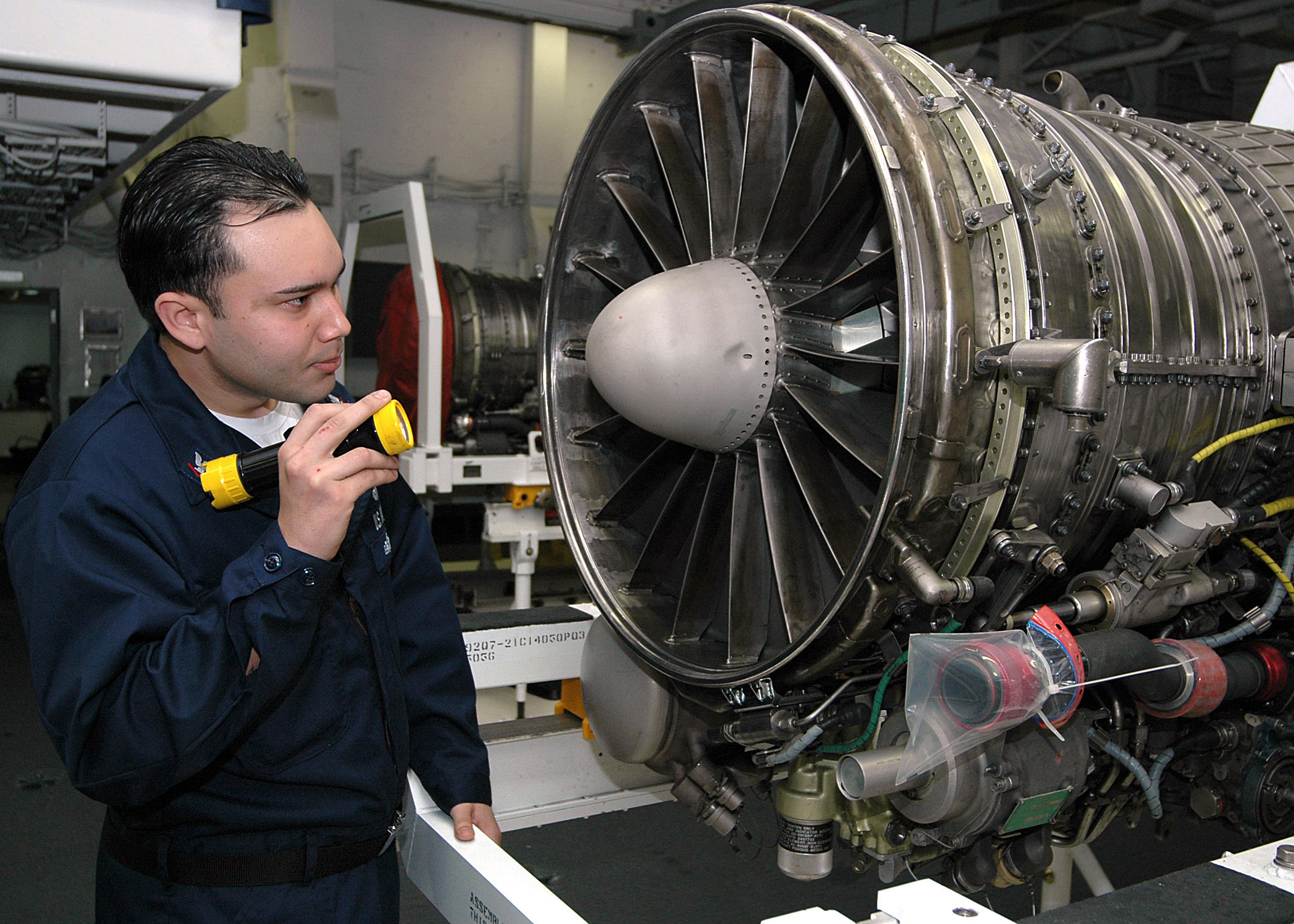 Atlantic Ocean (Feb. 10, 2006) - Aviation Machinist's Mate 3rd Class (AD3 AW/SW) Moreno Santos, checks a jet engine for foreign object debris (FOD) in Aviation Intermediate Maintenance Departments (AIMD) jet shop aboard the Nimitz-class aircraft carrier USS George Washington (CVN 73). The Norfolk, Va., based ship is conducting carrier qualifications for the first time since completing a Docked Planned Incremental Availability (DPIA) period at Northrop Grumman Newport News Shipyard in 2005. U.S. Navy photo by Photographer's Mate Airman Ian Schoeneberg (RELEASED)